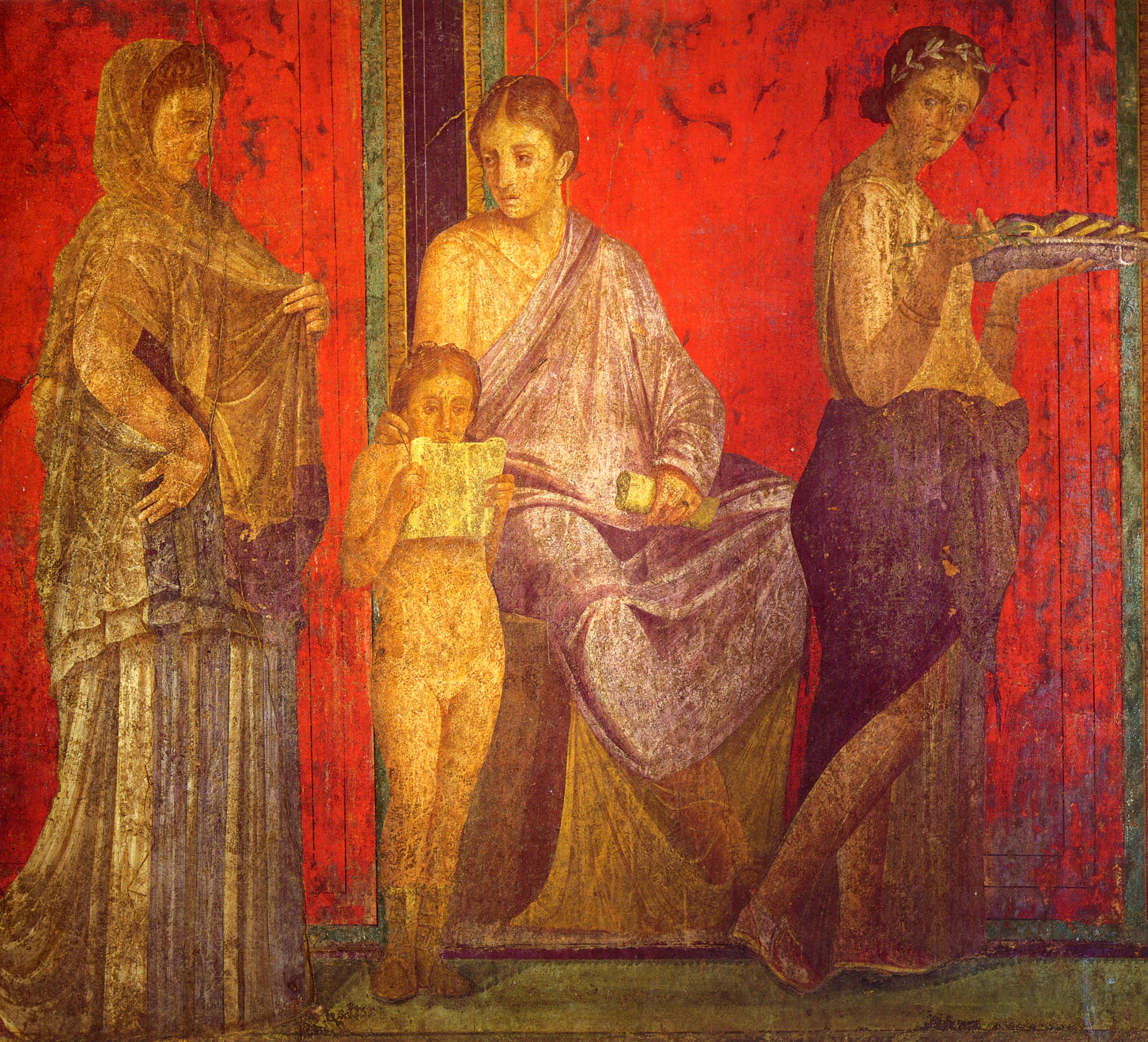 Fresco from the Sala di Grande Dipinto, Scene II in the Villa de Misteri (Pompeii).